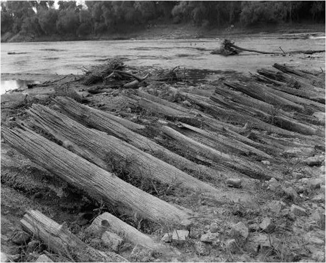 Close up of Bailey's Dam remnants in 1984.